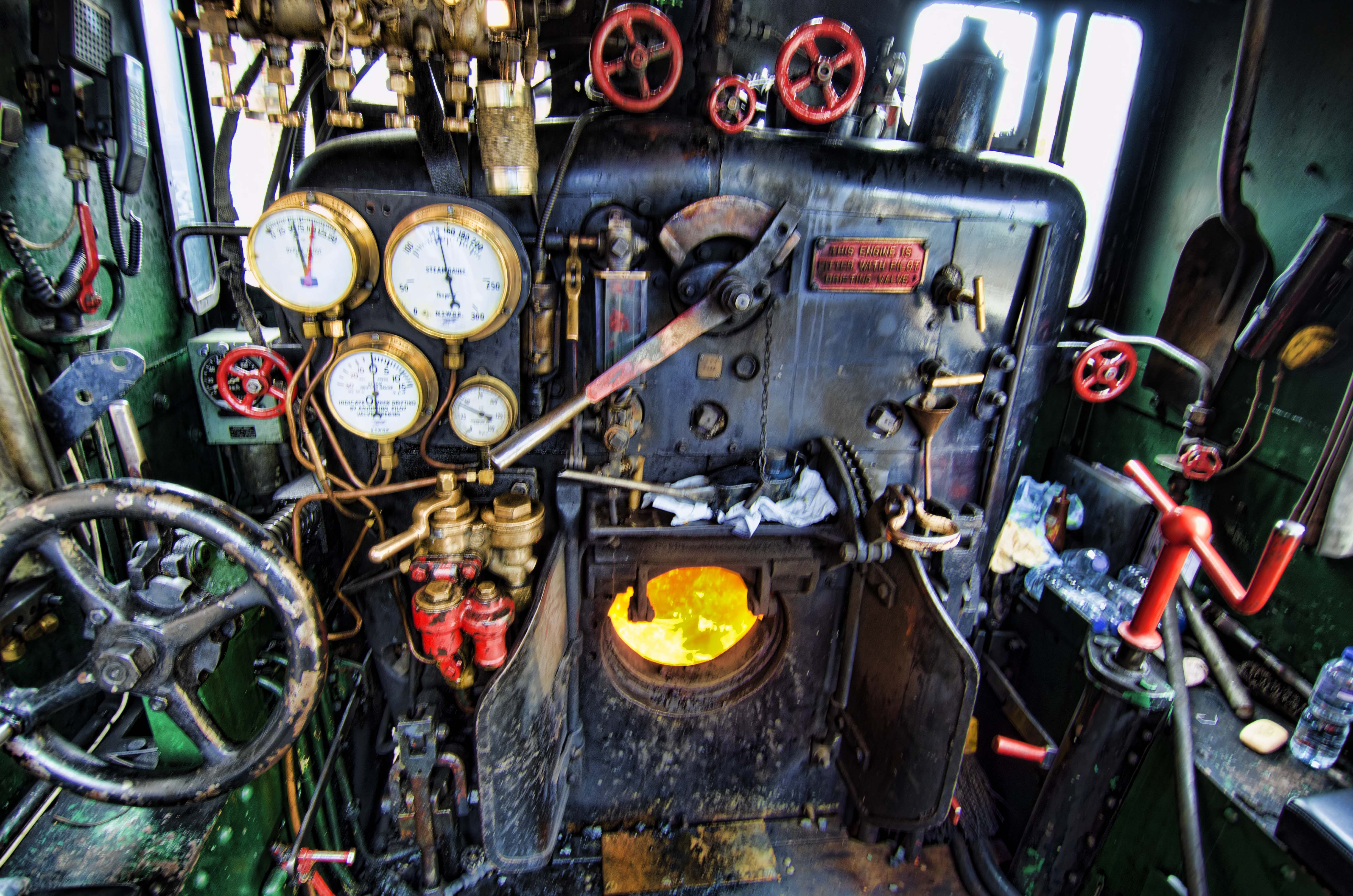 NSWGR Locomotive 3016